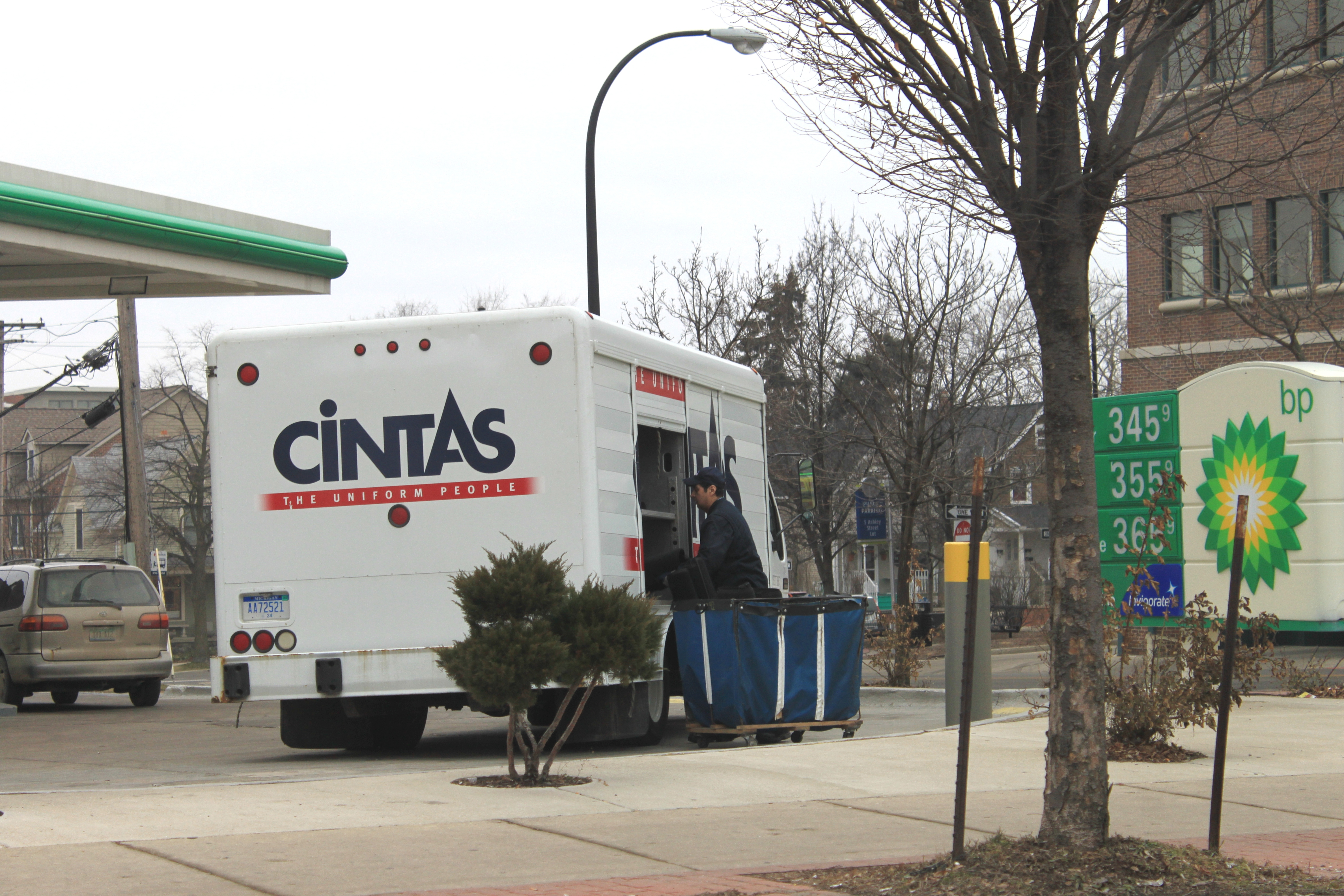 Cintas delivery truck, Main Street & West William Street, Ann Arbor, Michigan.